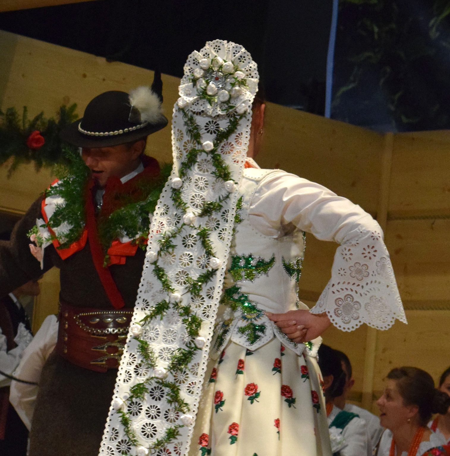 "Gorals' Wedding" folk performance at Dom Ludowy Theatre in Bukowina Tatrzańska. Detail of the bride's costume